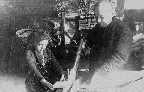 Ghetto Litzmannstadt: A young girl assists in the paper factory.